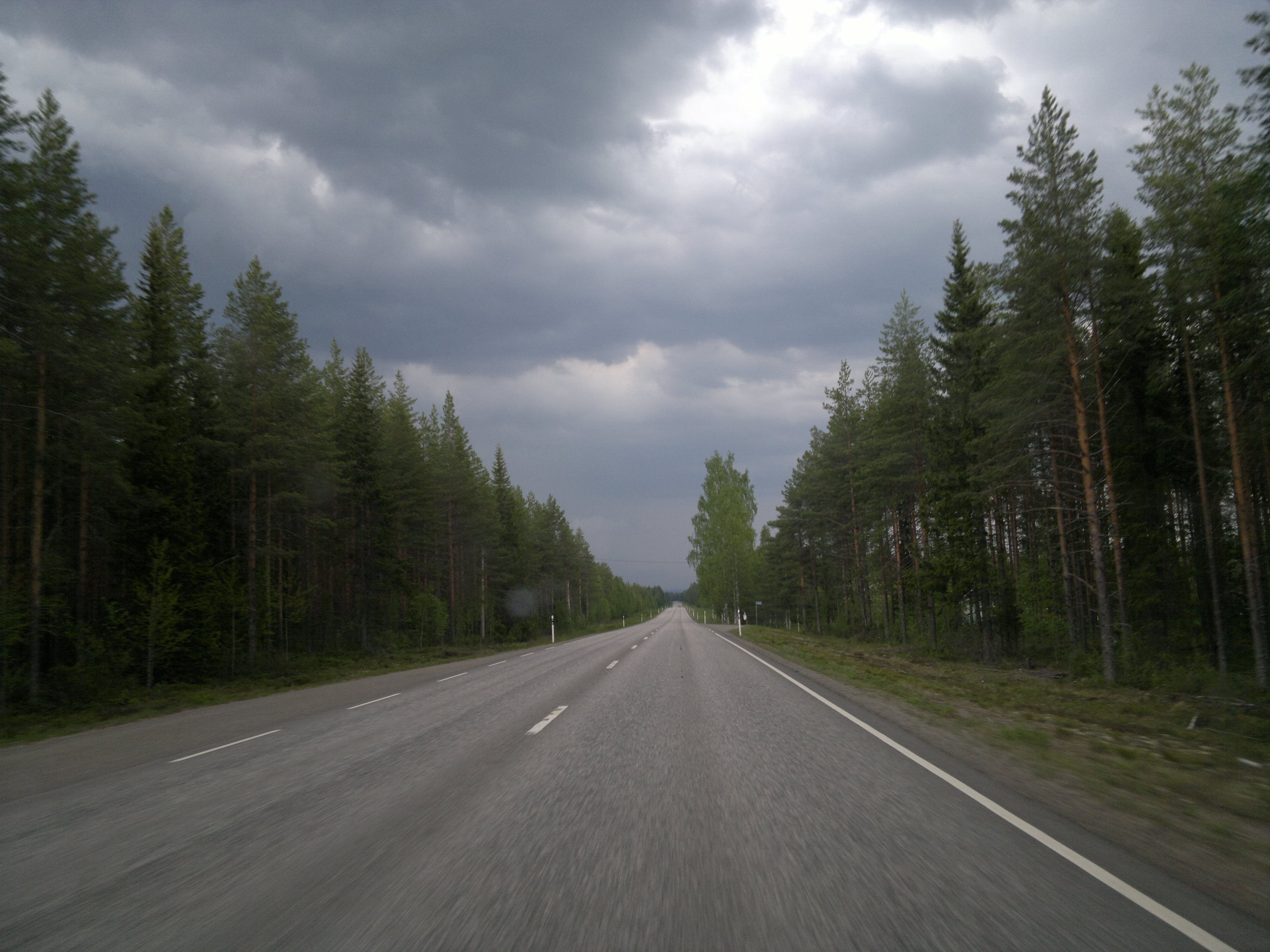 Highway no.5 in Paltamo, Kainuu, Finland